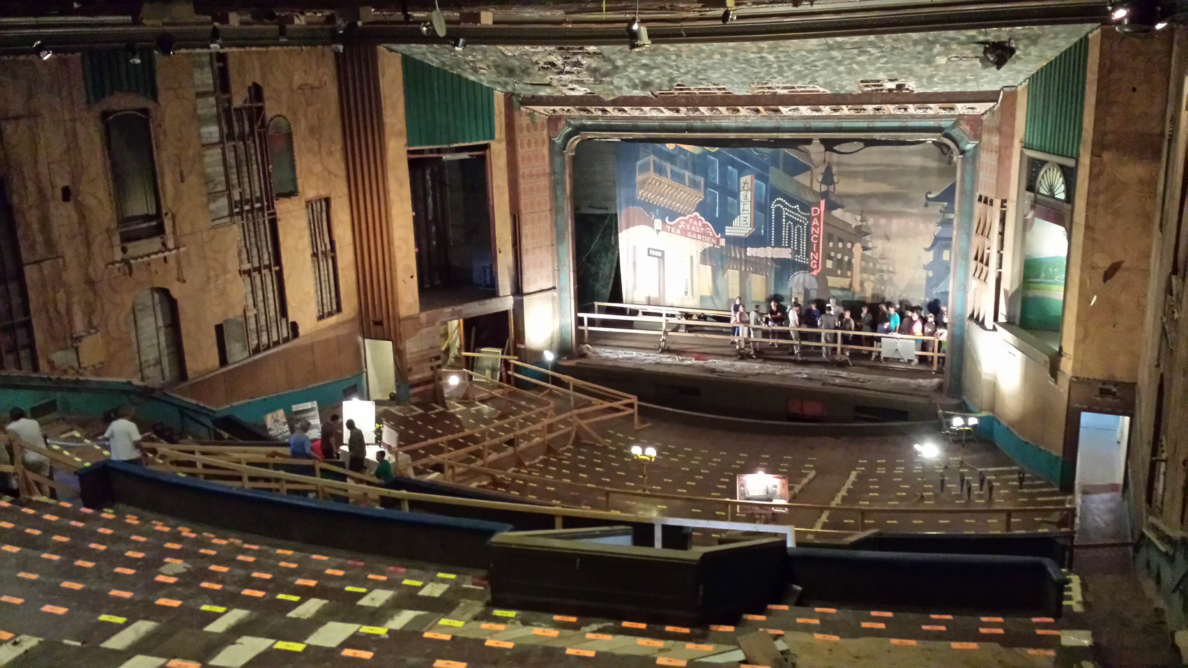 Restoration is underway at the Holly Theatre in Medford, Oregon